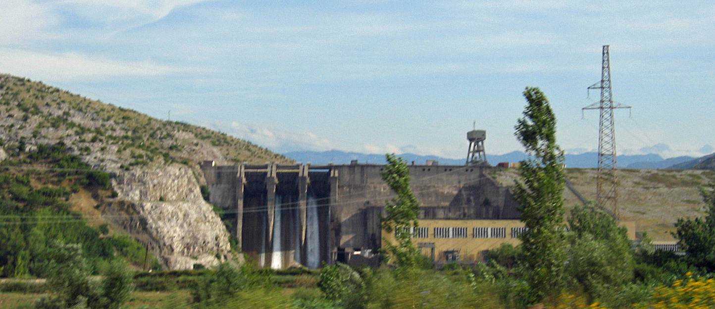 Dam of Vau-Dejës Lake, Northern Albania